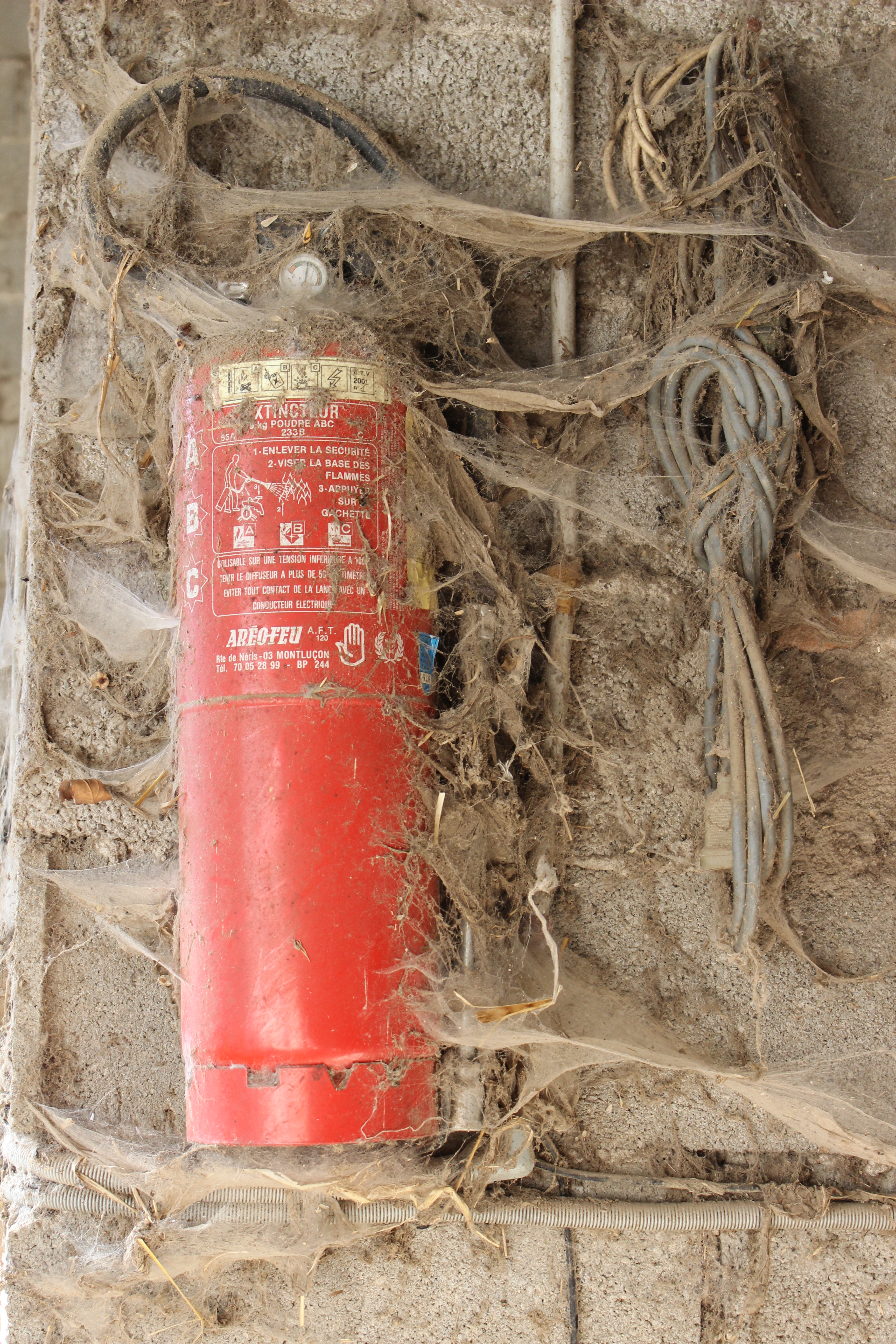 cobweb covered fire extinguisher - old farm in the french Massif Central